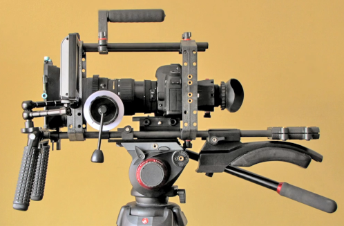 Canon 5d Mark II set up for cinema style shooting